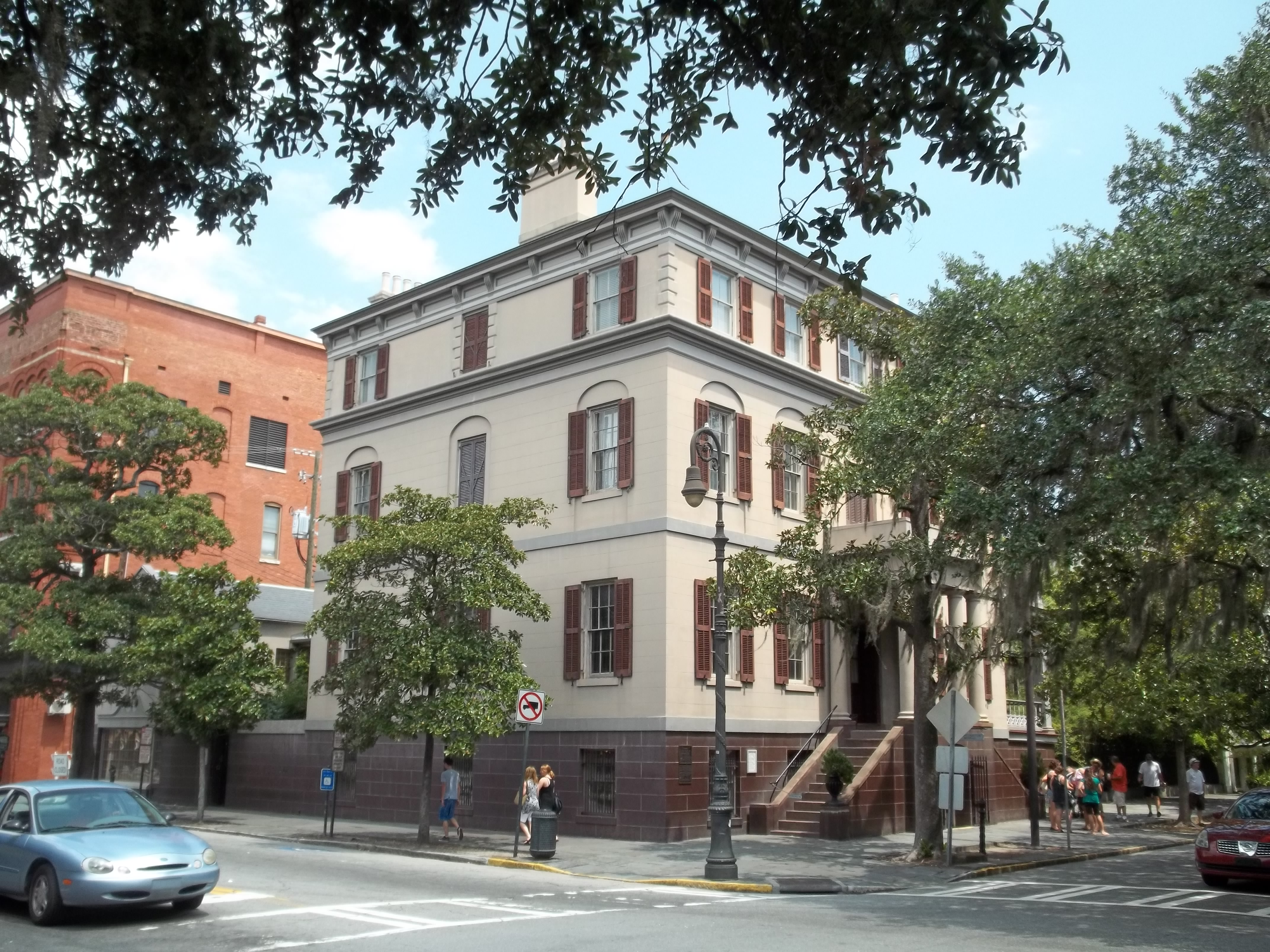 Savannah, Georgia: Juliette Gordon Low Historic District: Wayne-Gordon House